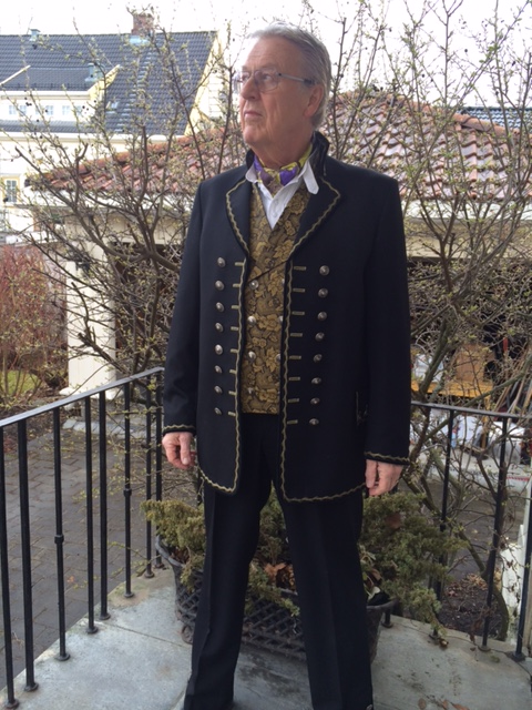 Bjerkakerdrakten (drakt=costume) named after the old Norwegian farm Bjerkaker in Oppdal. Designed by the Norwegian designer Lise Skjåk Bræk